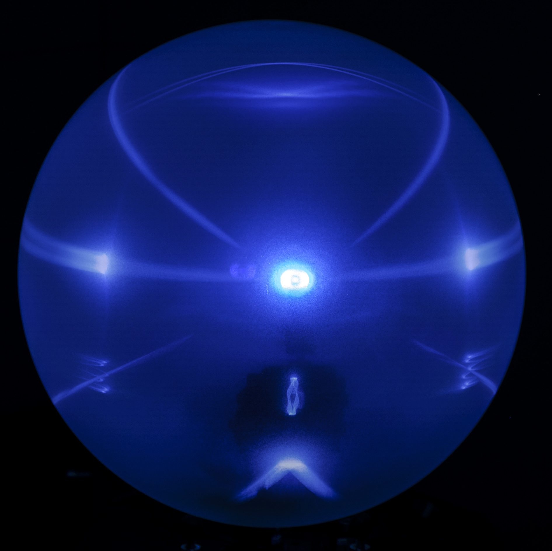 Artificial halo created by spinning a crystal around several axis and illuminating it with a blue laser diode. The deflected beam is projected on a spherical screen and the photograph averaged over many revolutions of the spinning crystal.